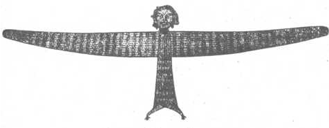 Māori plaything (kite), representing Kāhu (Swamp Harrier, Circus approximans).